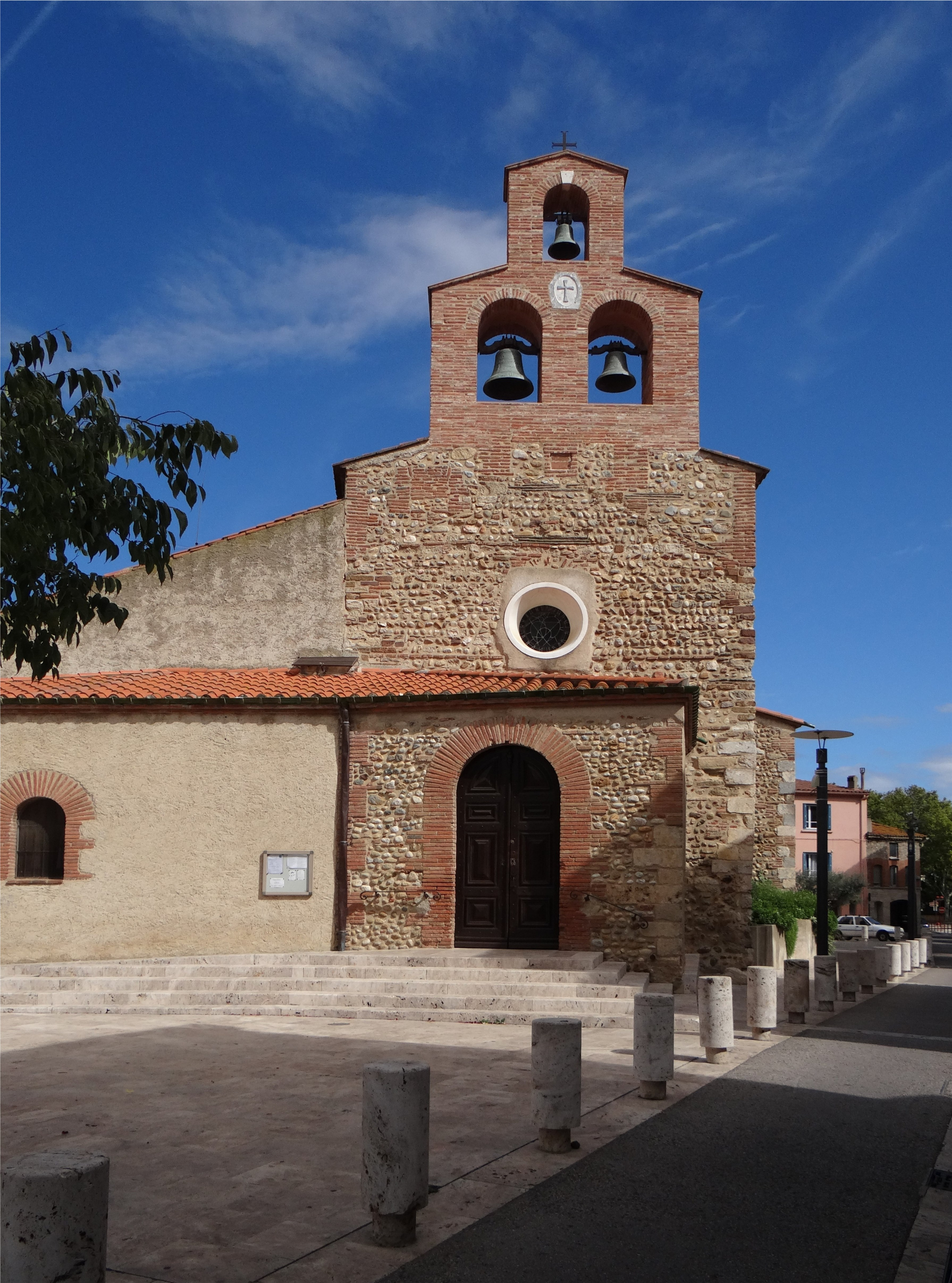 Church of the Assumption of the Virgin, Toulouges, Pyrenees-Orientales, France. Main west facade.